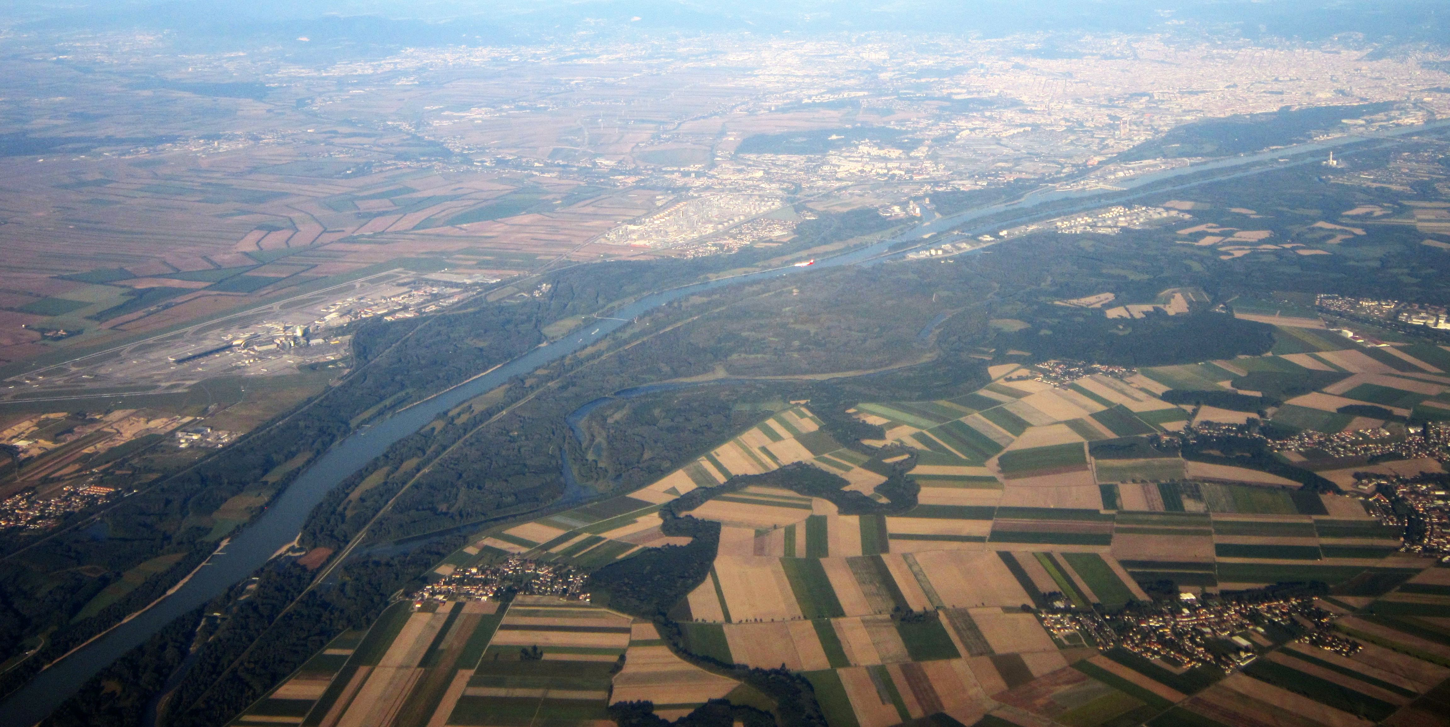 Danube-Auen National Park near Lobau and Groß-Enzersdorf. On the left, Vienna International Airport. On the right, counterclockwise: Schönau an der Donau (near the river), Probstdorf, Wittau, Oberhausen, Mühlleiten (near the forest) -- all belonging to Groß-Enzersdorf municipality. Groß-Enzersdorf itself is further away at right-hand side. The city of Vienna is in the background.